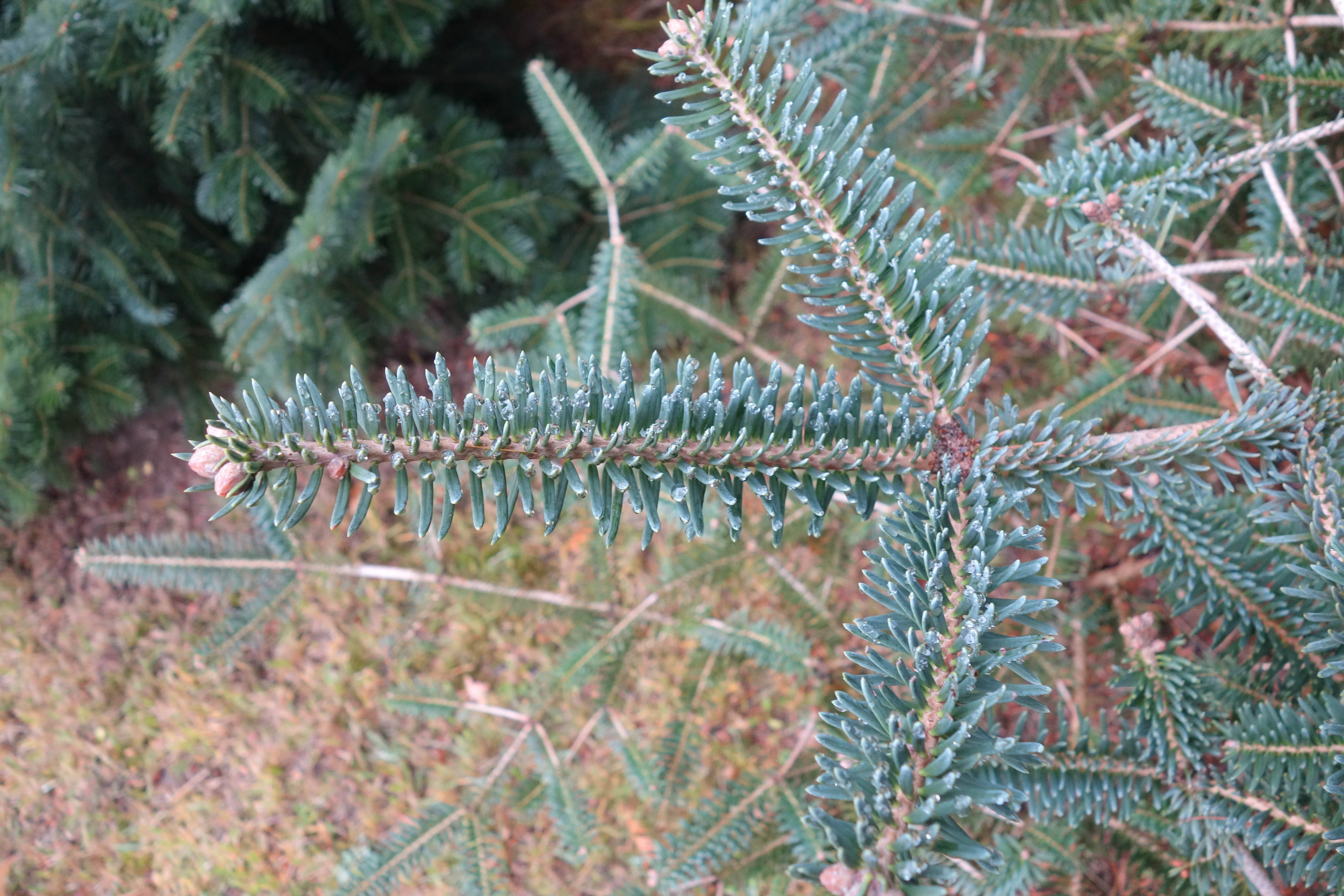 Botanical specimen in the Botanischer Garten, Dresden, Germany.